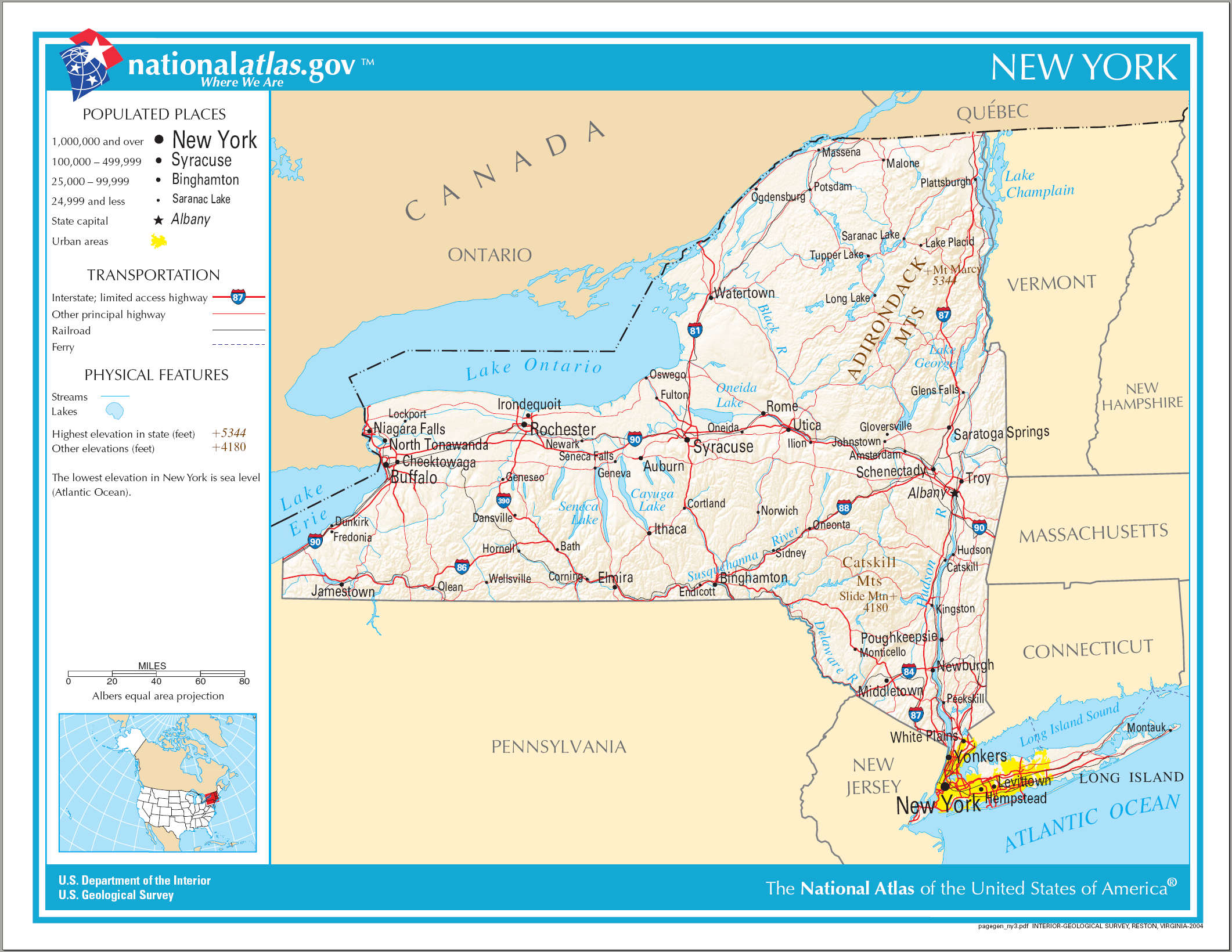 Map of New York